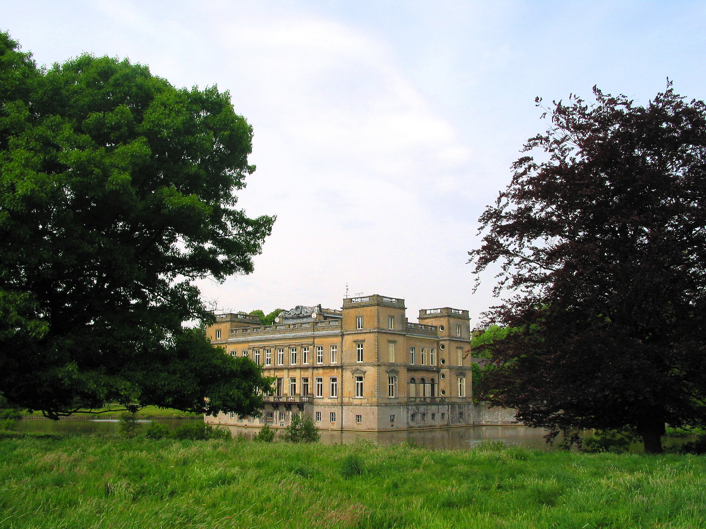 Houtaing (Belgium), the castle of « La Berlière » (1834/1835)}.